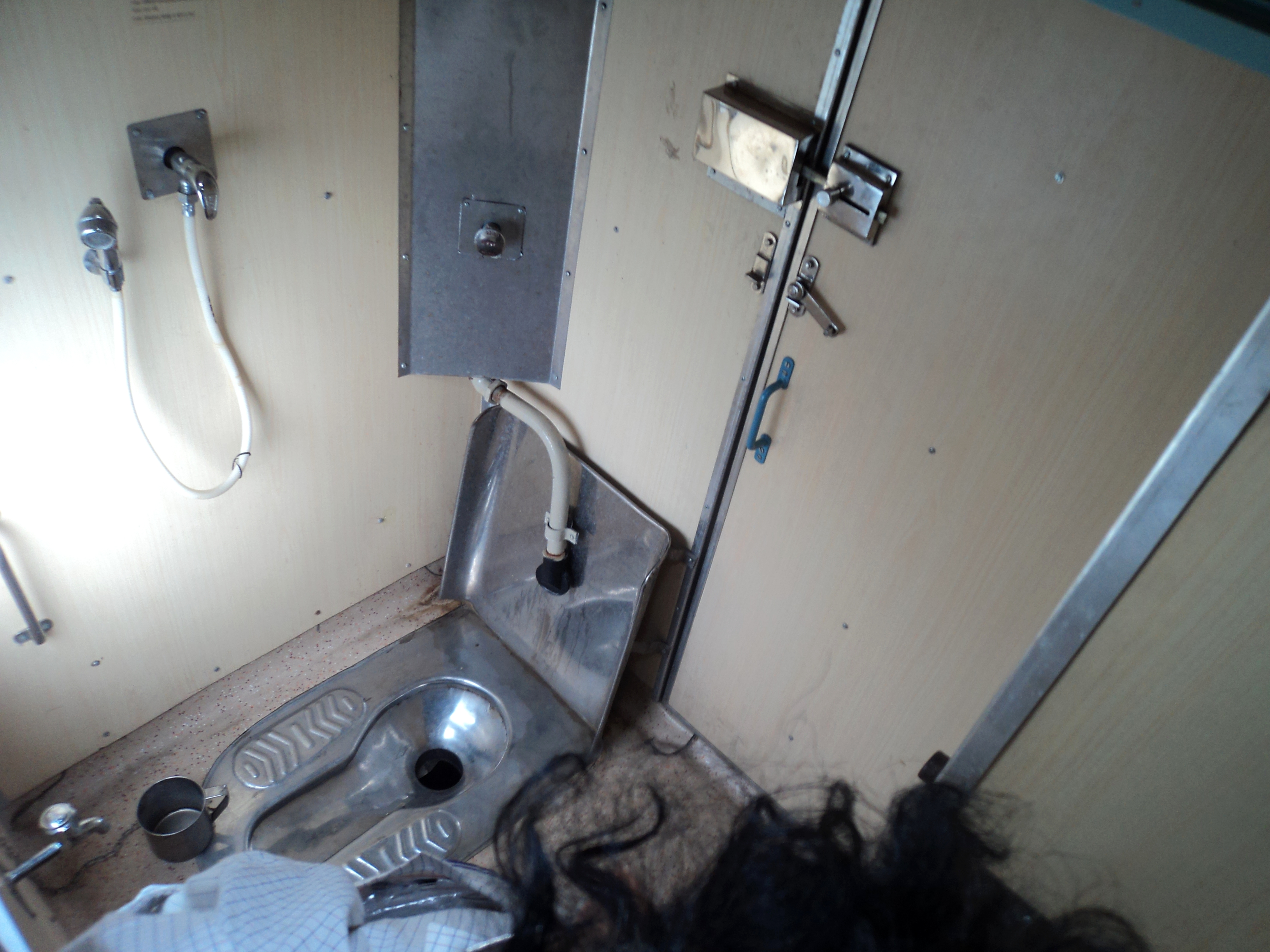 the train no:11014(lokmania tilak) train's A/c coach toilet on november-2011